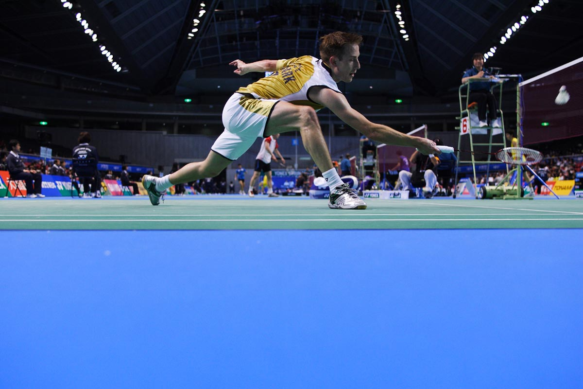 SEPTEMBER 24, 2009 - Badminton : Yonex Open Japan 2009 at Tokyo Metropolitan Gymnasium on September 24, 2009 in Tokyo, Japan. On picture: Peter Gade. (Photo by Tsutomu Takasu)